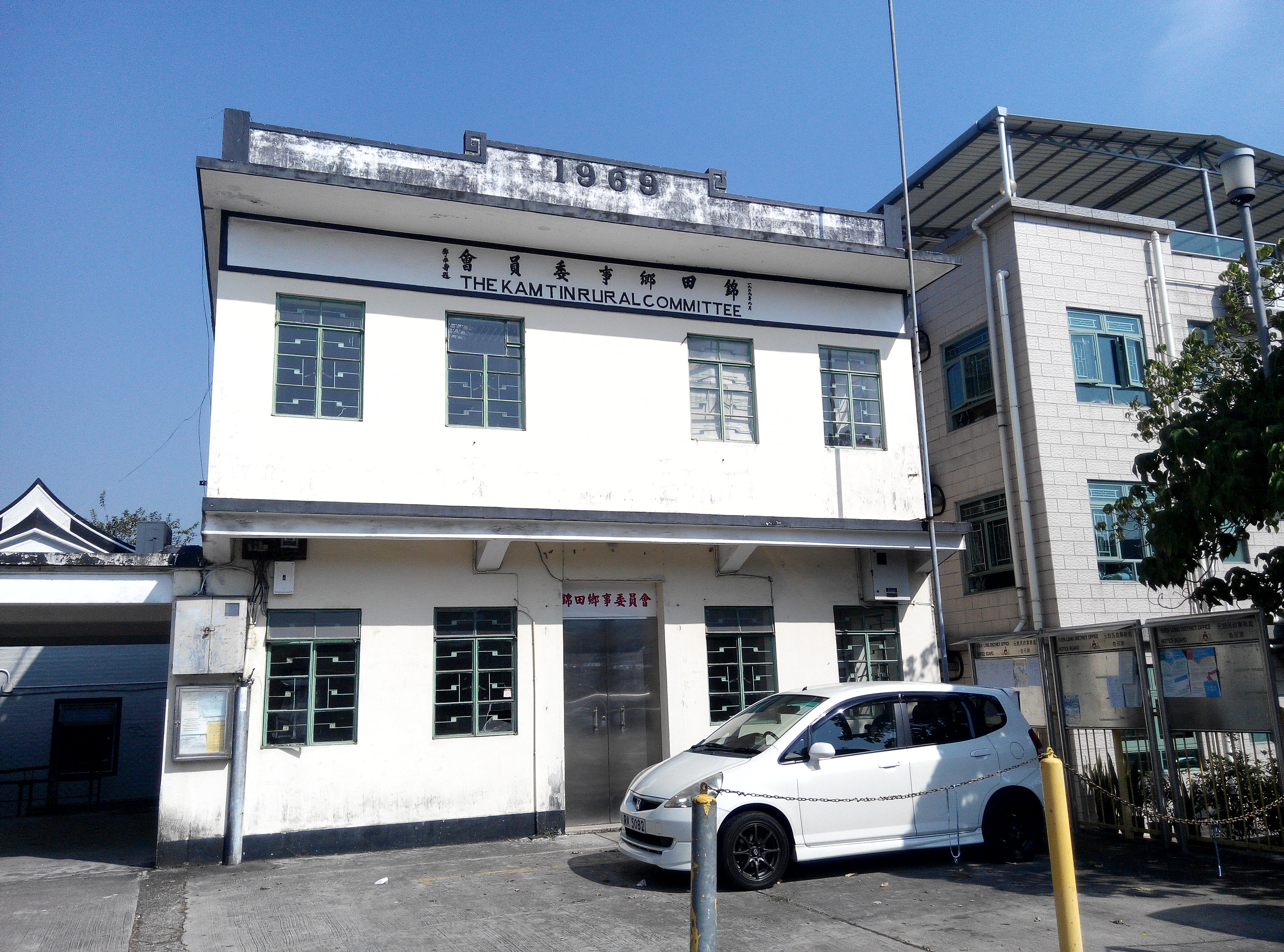 Kam Tin Rural Committee